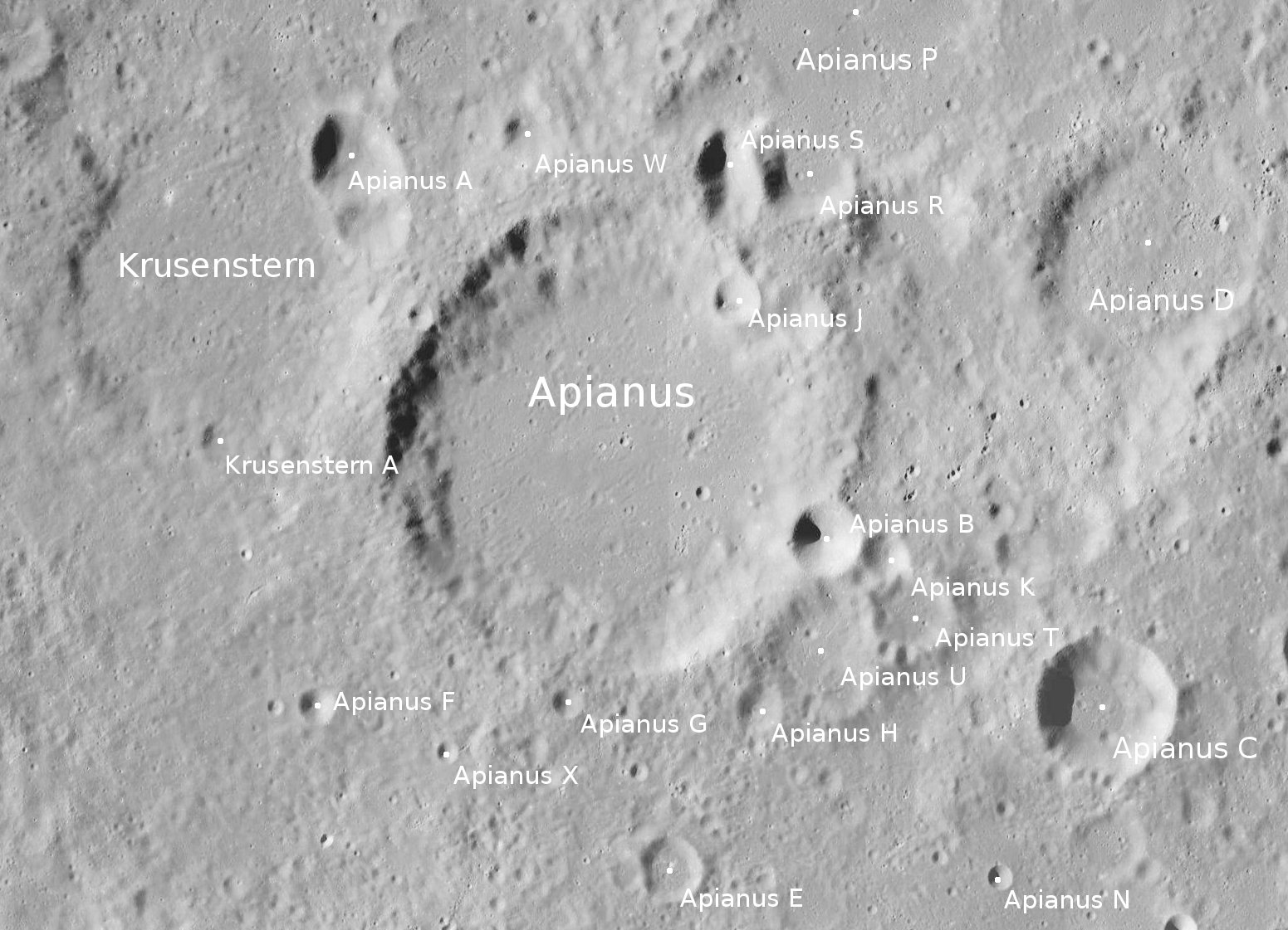 Craters Apianus and Krusenstern (detail of LRO - WAC global moon mosaic; Mercator projection)